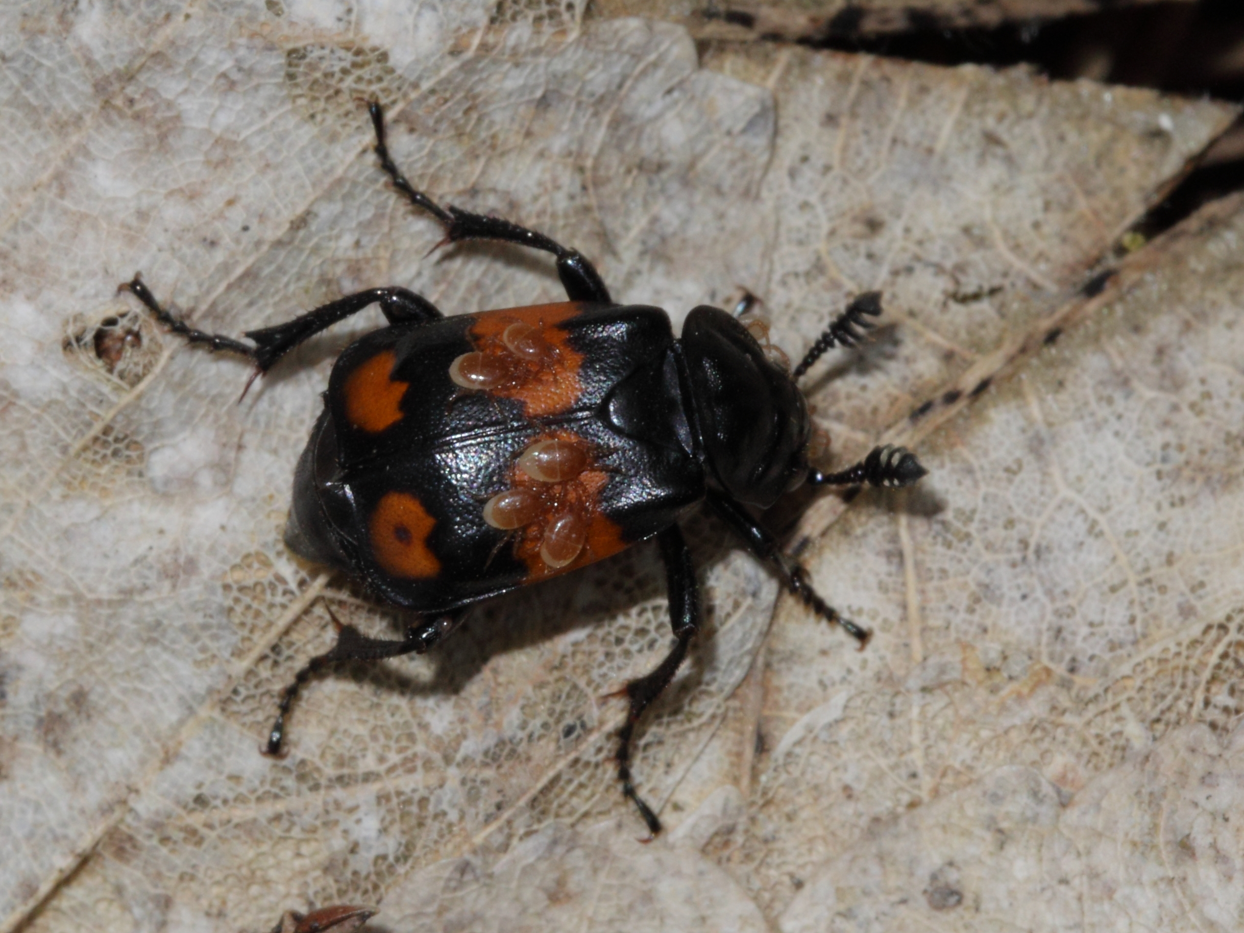 burying beetle 12-18 mm Phylum: Arthropoda- Subphylum: Hexapoda Class: Insecta (insects, Insekten) Subclass: Pterygota Order: Coleoptera (beetles, Käfer) Suborder: Polyphaga Infraorder: Staphyliniformia LAMEERE, 1900 Superfamily: Staphylinoidea LATREILLE, 1802 Family: Silphidae (carrion beetles or burying beetles, Aaskäfer) Subfamily:Nicrophorinae KIRBY, 1837 Genus: Nicrophorus (sexton beetles, Totengräber) Nicrophorus vespilloides HERBST, 1783 (Schwarzhörniger Totengräber) more info (the mite section is interesting): burying beetles and "parasitic" mites: the phoretic mites Phylum: Arthropoda Class: Arachnida Subclass: Acari Order: Mesostigmata Suborder: Parasitina Superfamily: Parasitoidea OUDEMANS, 1901 Family: Parasitidae OUDEMANS, 1901 Subfamily: Parasitinae Genus: Poecilochirus G. & R. Canestrini, 1882 Germany, Brandenburg (Fläming): vic. Rabenstein, 21.04.2013 IMG_3147